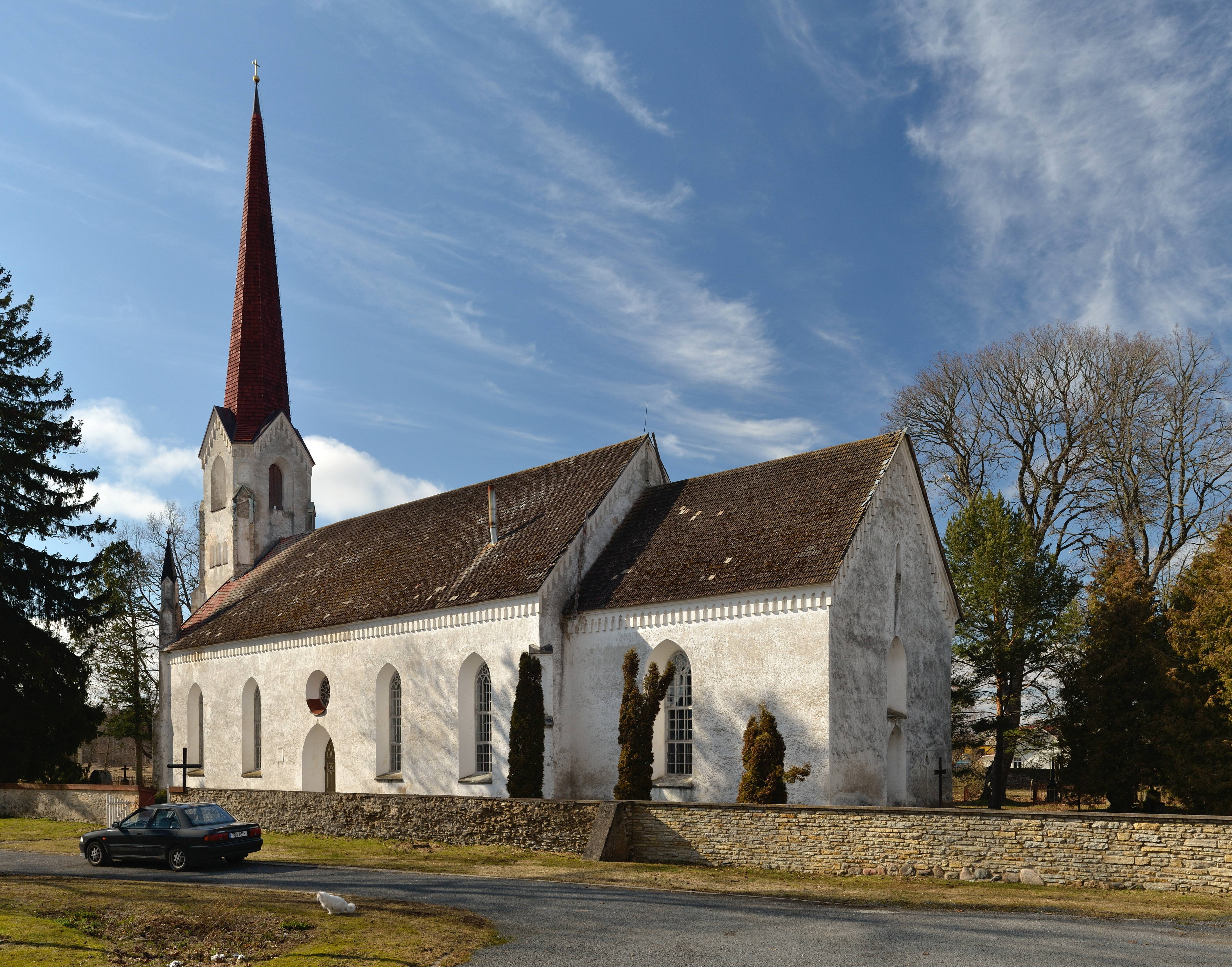 Viru-Jaagupi church